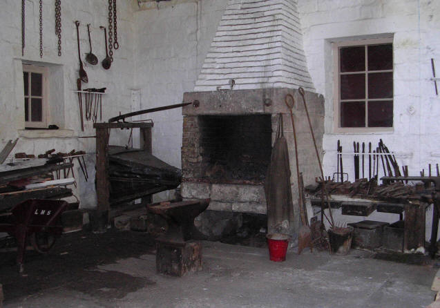 High Peak Junction Workshop 1829